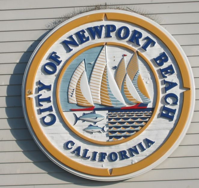 Newport Beach Seal at the Pier